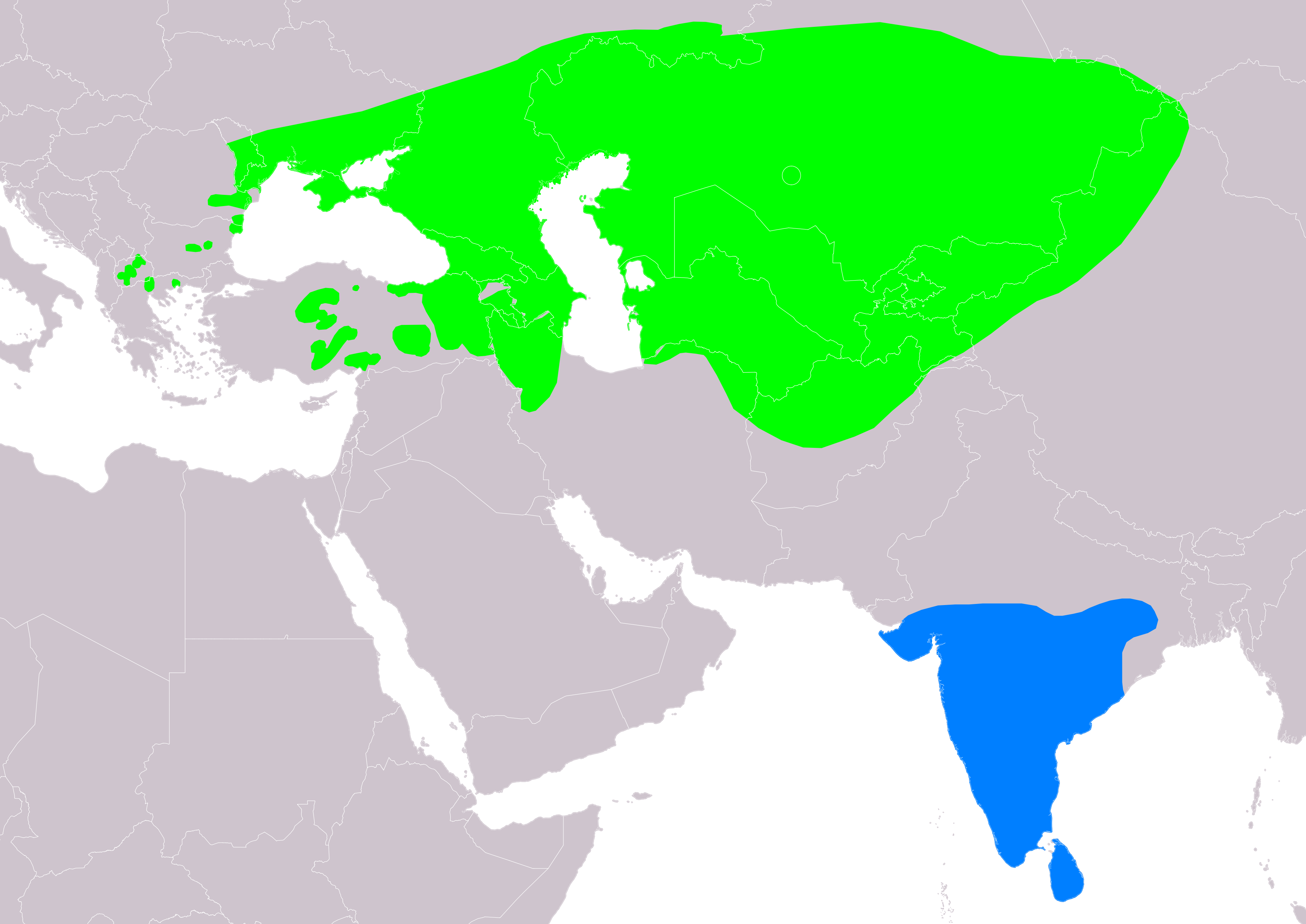 Distribution map of Rosy Starling (Pastor roseus) according to IUCN 2020.1 (Compiled by:BirdLife International and Handbook of the Birds of the World (2016) 2007); key: Legend: Extant, breeding (#00FF00), Extant, non-breeding (#007FFF)